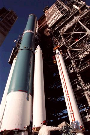 At Pad 17A, Cape Canaveral Air Station, a fourth and final solid rocket booster (SRB) (right) is moved from the mobile tower by a crane before mating with the Delta II rocket (left). The rocket will be aided by four SRBs to carry the Stardust satellite into space for a close encounter with the comet Wild 2 in January 2004. Using a medium called aerogel, Stardust will capture comet particles flying off the nucleus of the comet, plus collect interstellar dust for later analysis. The collected samples will return to Earth in a Sample Return Capsule to be jettisoned as Stardust swings by Earth in January 2006. Stardust is scheduled to be launched on Feb. 6, 1999.